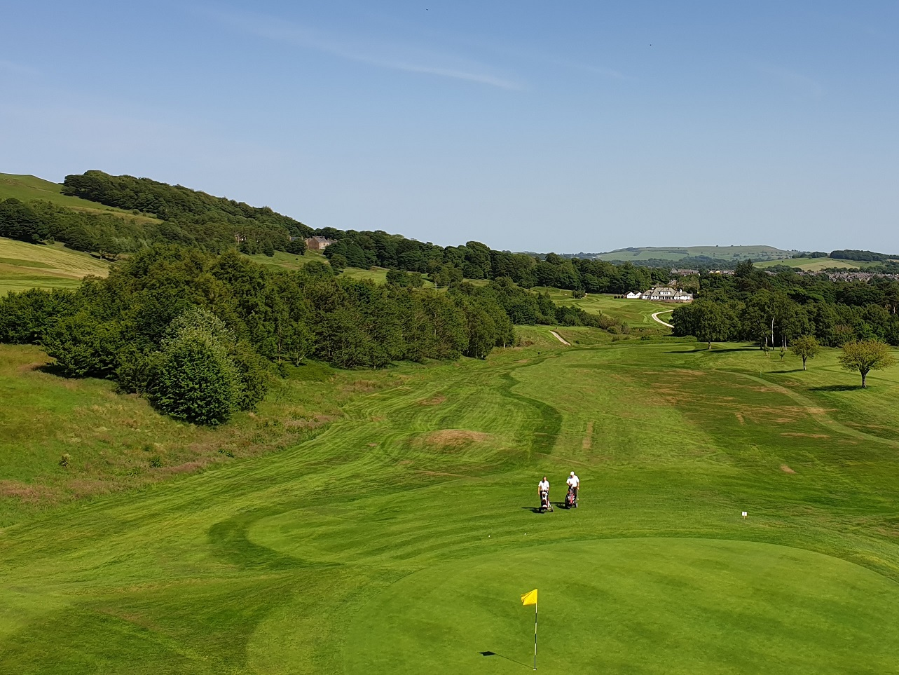 5th Fairway from 6th Tee at Cavendish Golf Club in Buxton